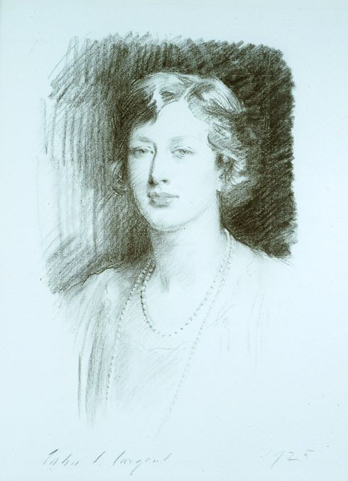 H.R.H. Princess Mary, the daughter of King George V and Queen Mary